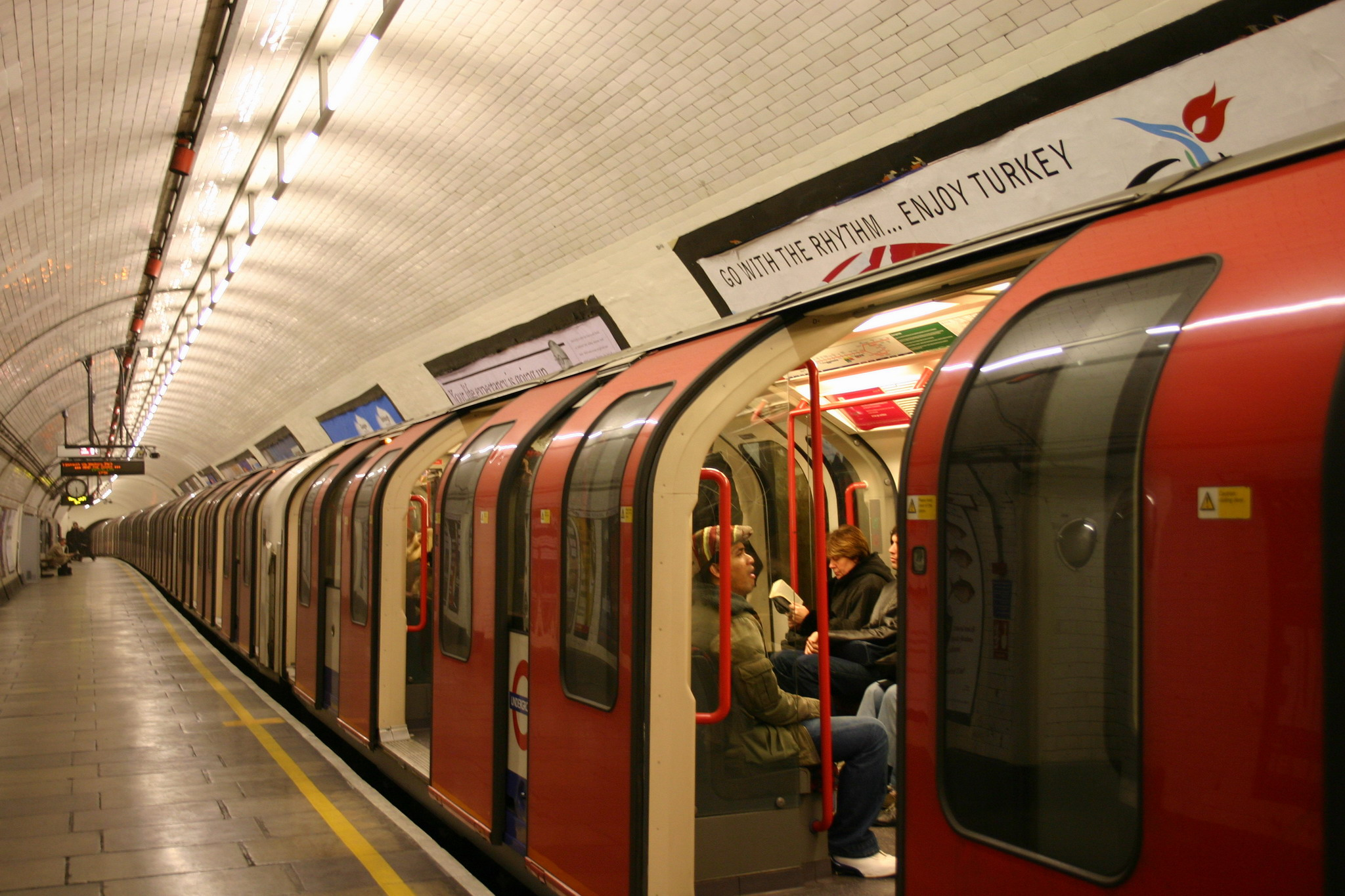 Central Line, London Underground, Tube stock 1992